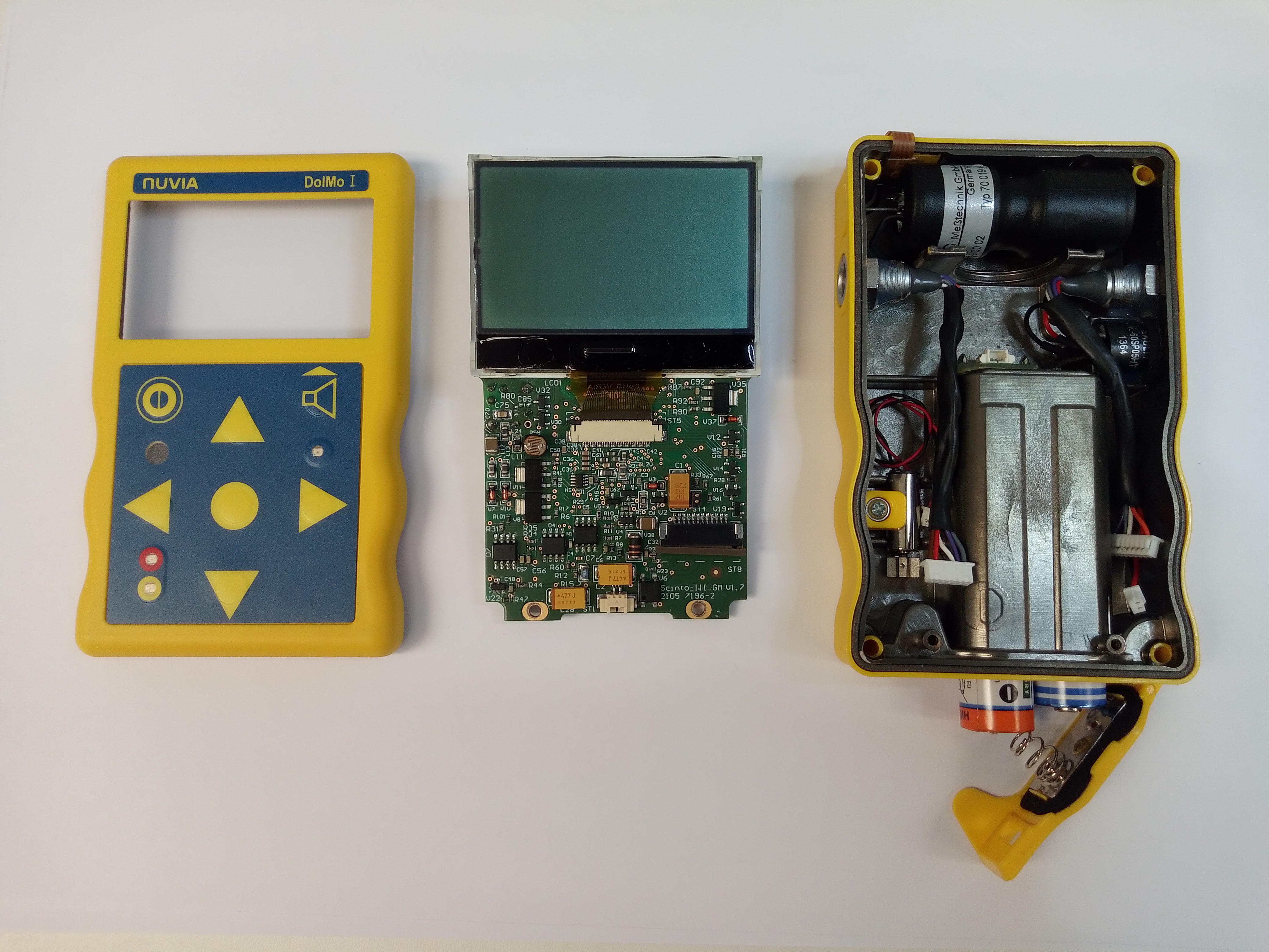 This is a complete Geiger counter, on the left side you see the keyboard, in the middle the circuit board and on the right the build-in Geiger-Muller tube 70 019 (on top) and the battery compartment for 2 AA batteries Deitsch: Dies ist ein Dosis- und Dosisleistungsmessgerät, auf der linken Seite sehen Sie die Tastatur, in der Mitte die Platine und rechts das eingebaute Geiger-Müller-Röhre 70 019 (oben) und das Batteriefach für 2 AA-Batterien